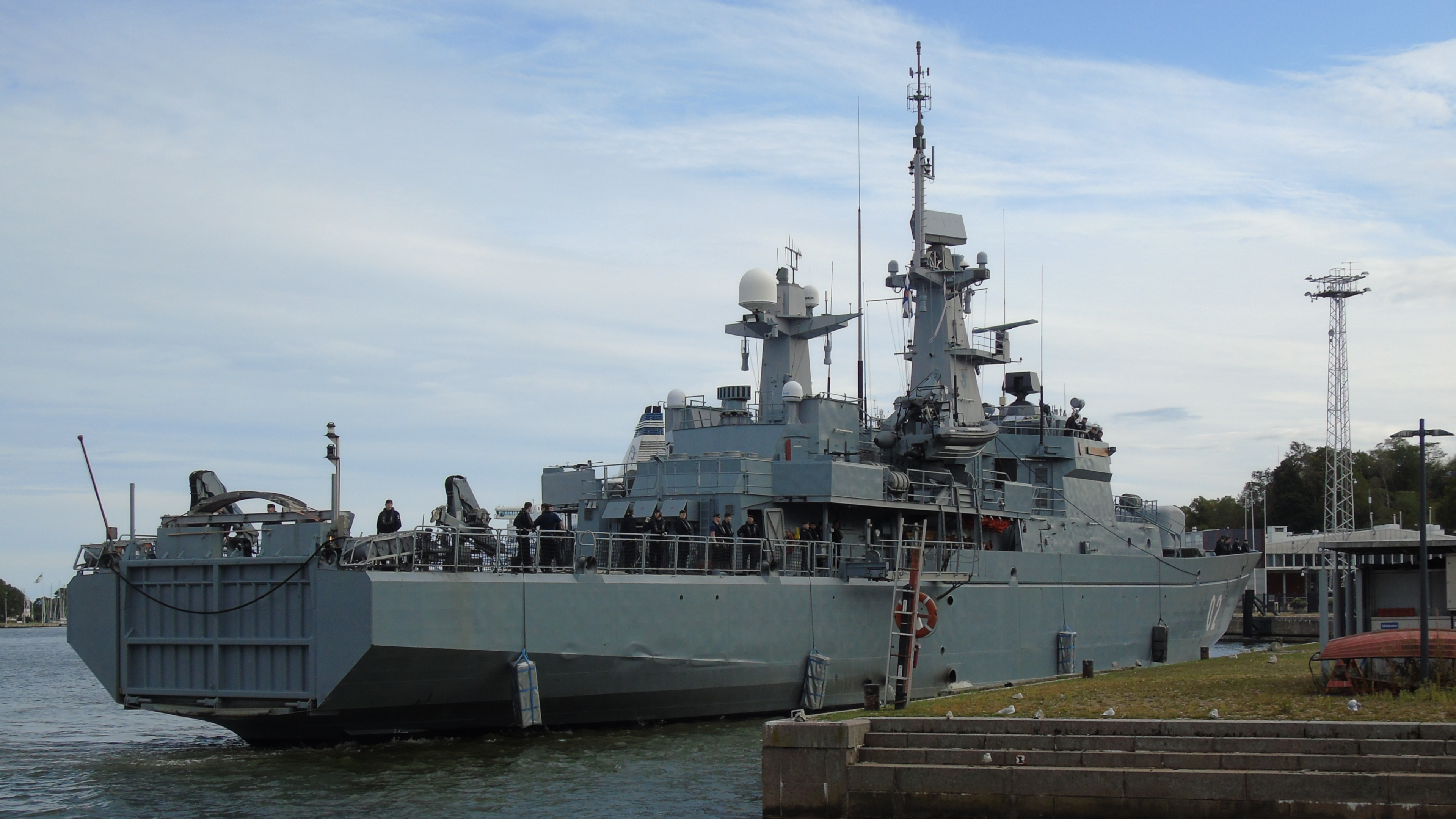 FNS Hämeenmaa, Finnish Navy Hämeenmaa-class minelayer. Helsinki, Pakkahuone Quay 27.8.2018.